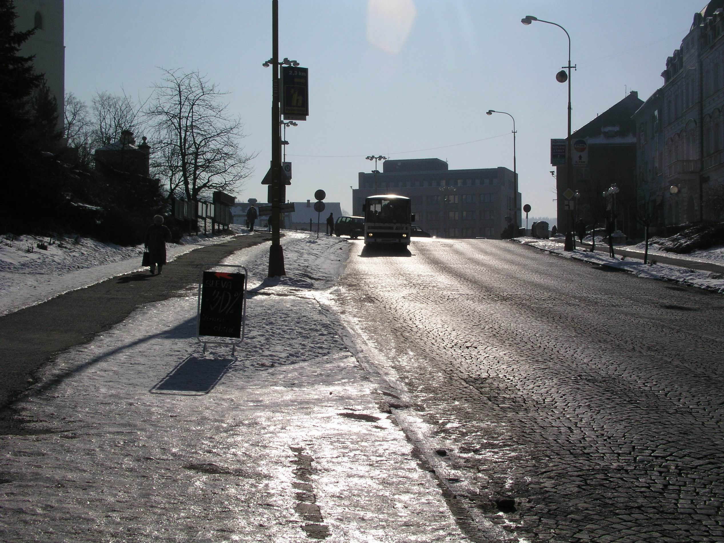 Příbram I, the Czech Republic. Plzeňská street.